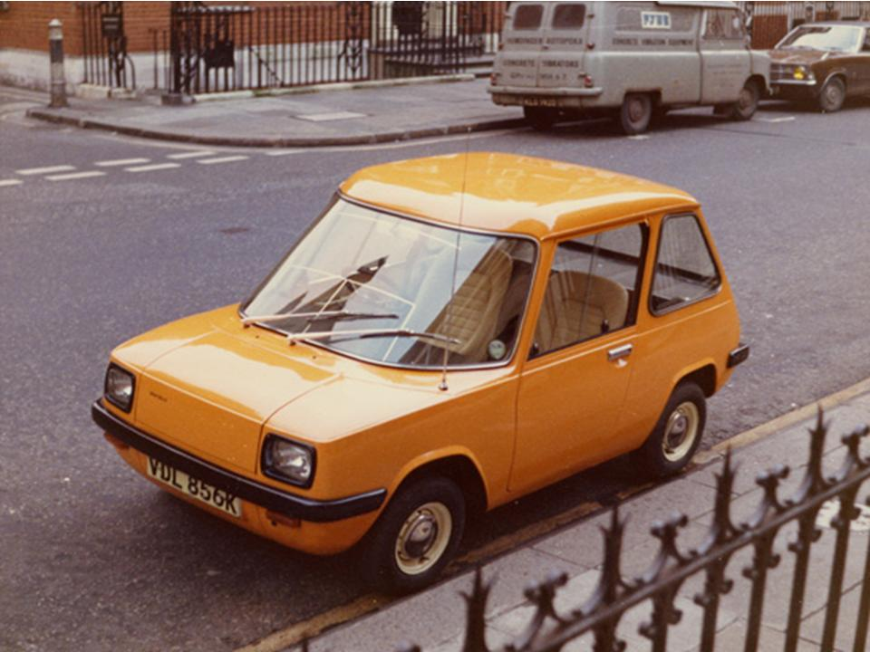 From the Enfield Automotive, Electricity Council and Constantine Adraktas archives.